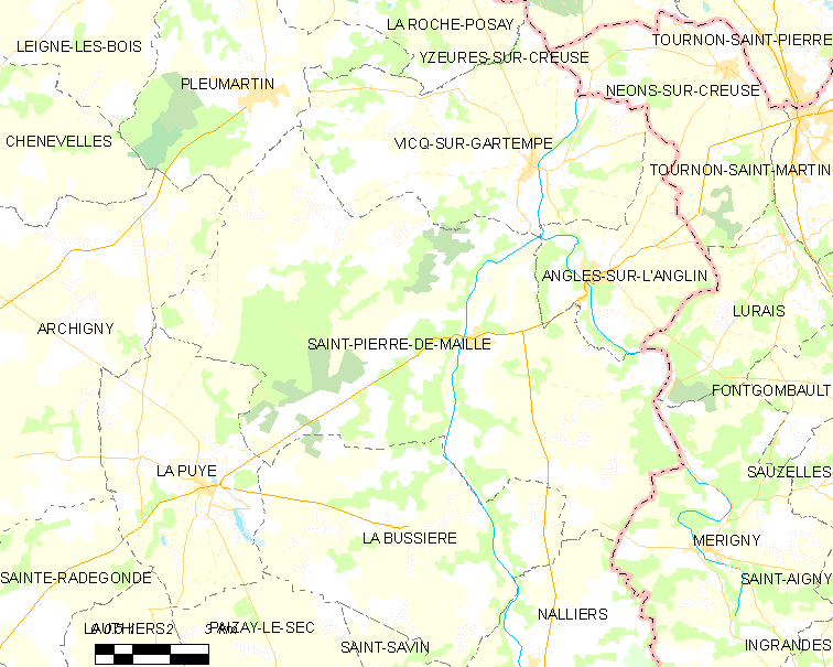 Map of French municipality Saint-Pierre-de-Maillé